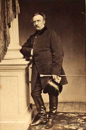 Frederik "Fritz" Emmanuel von Blücher (1806-1871), Danish army officer and courtier